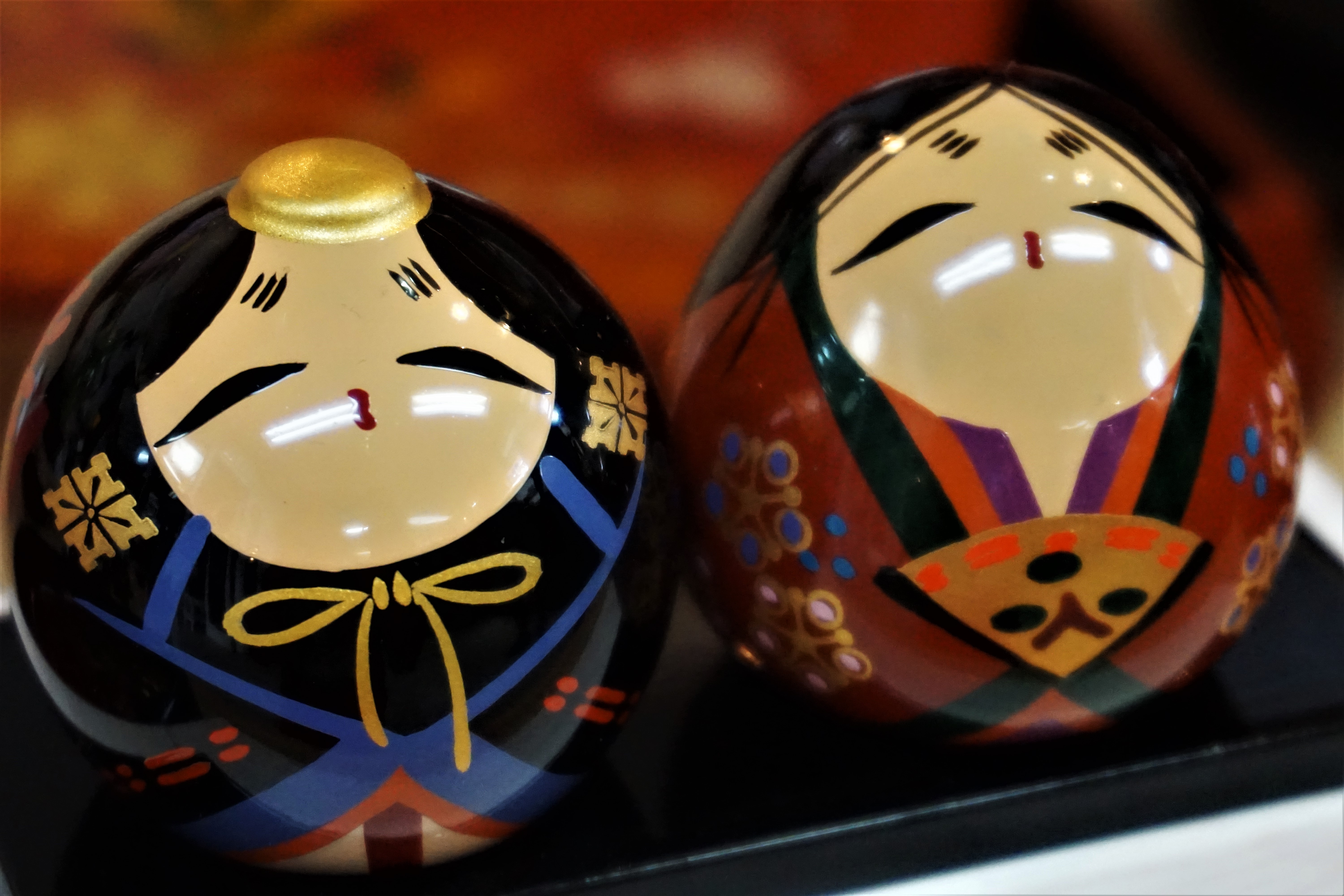 A traditional handicraft of Yamaguchi city, these lacquered dolls are popular souvenirs.